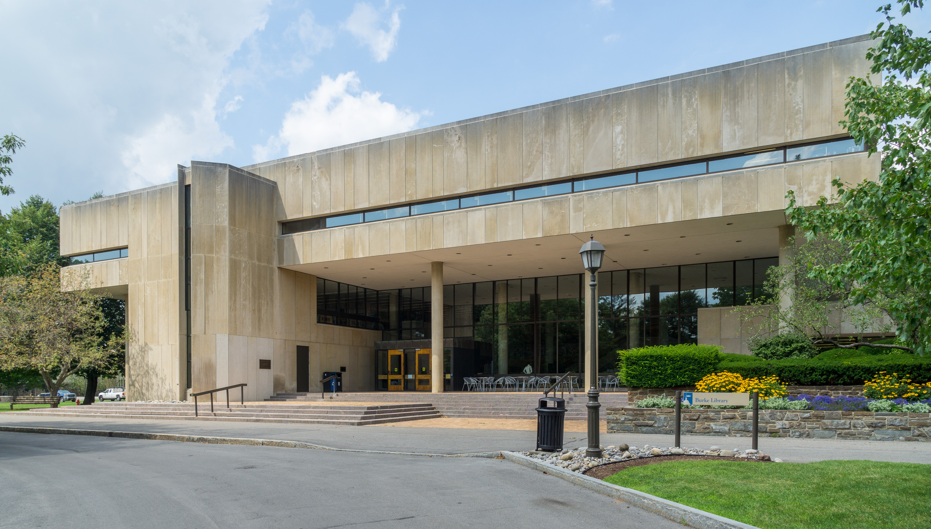 Daniel Burke Library at Hamilton College, Clinton NY. Designed by Hugh Stubbins, dedicated 1972, renovated 2011.